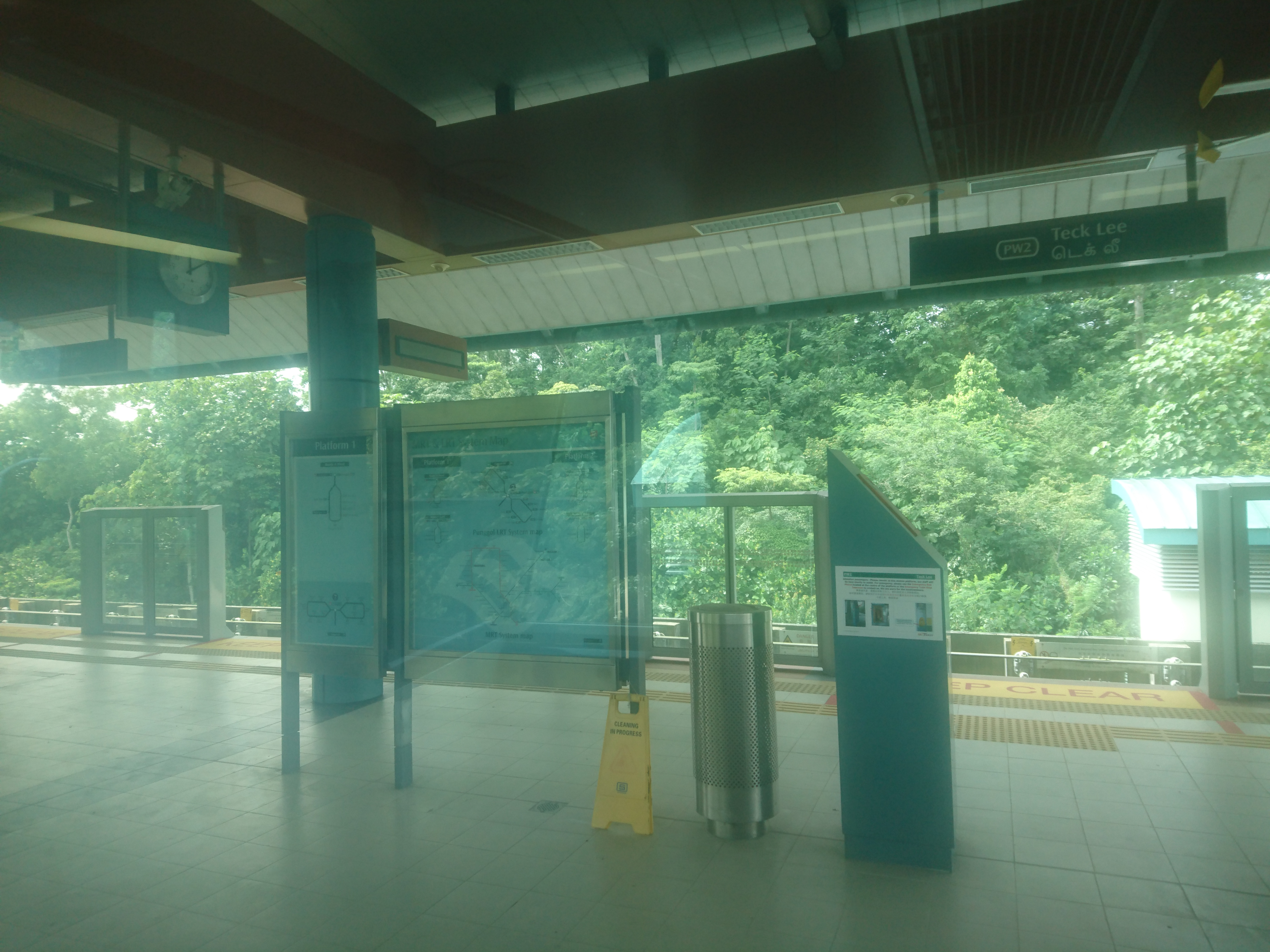 LRT view of Teck Lee Station. Station was closed at the time the picture was taken.